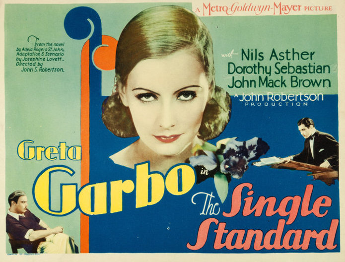 Lobby card for the 1929 American film The Single Standard